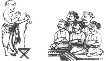 The Reciting Brahman Illustration from Sougandhika Parinaya, 19th Century